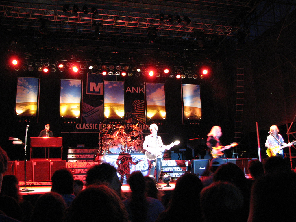 REO Speedwagon performing at Milwaukee's Summerfest in 2007